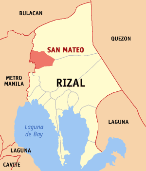 Locator map of San Mateo in Rizal, Philippines.